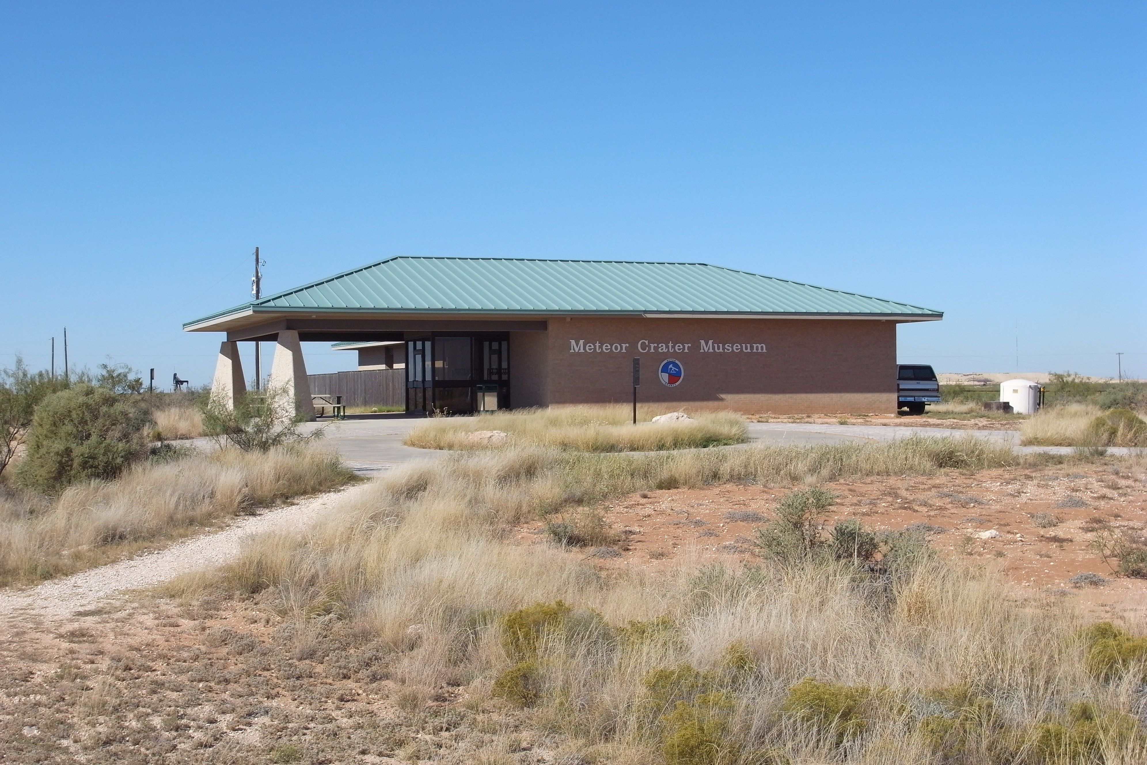 Odessa Meteor Crater Museum